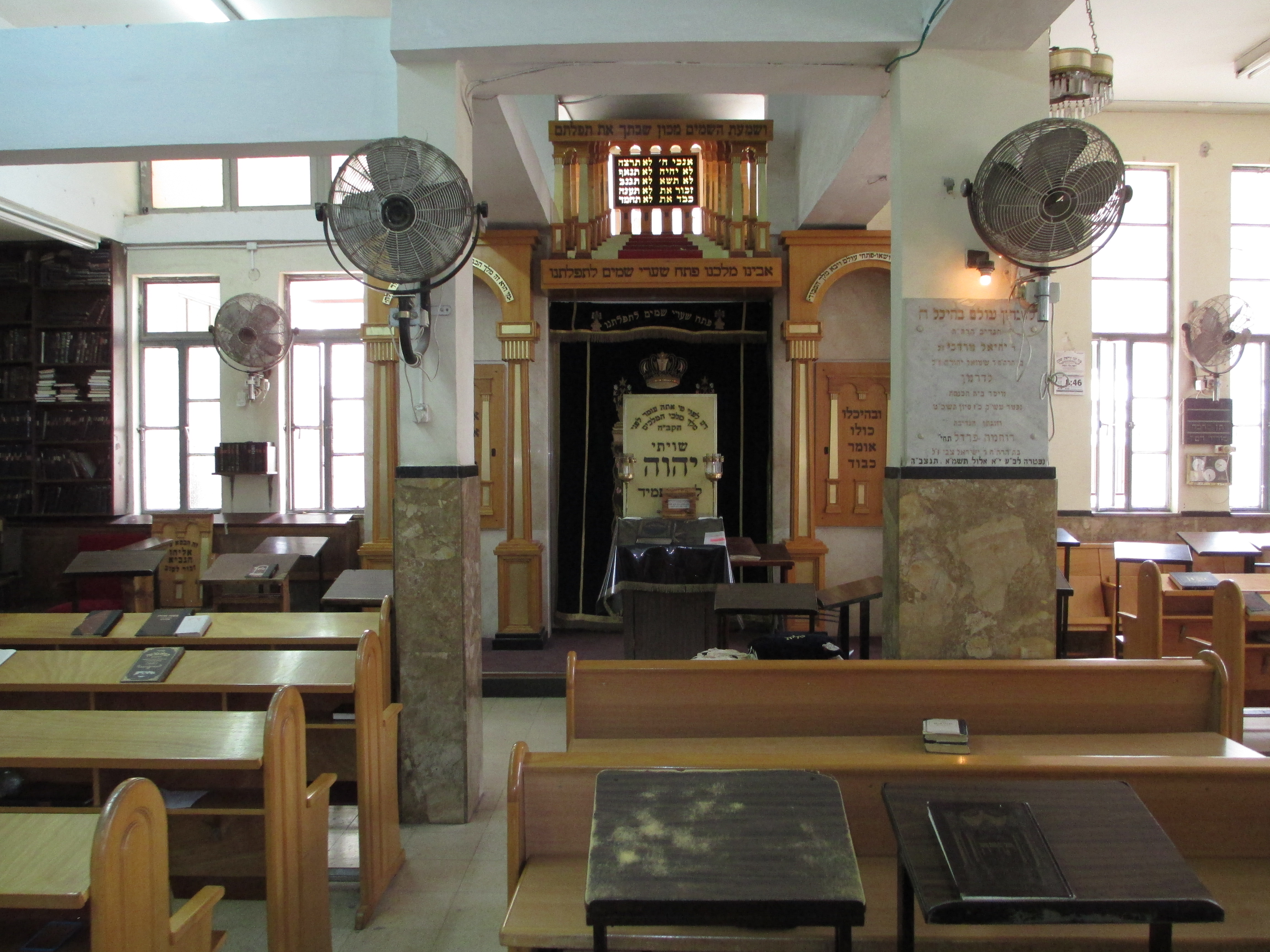 lederman synagogue in bnei brak בית הכנסת לדרמן בבני ברק, קומת הקרקע.